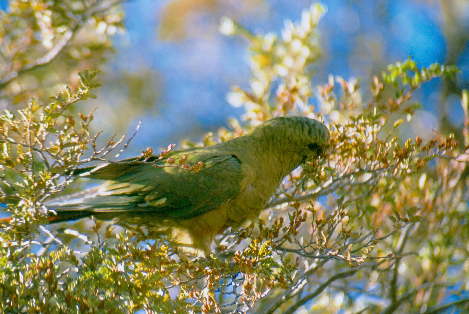 Austral Parakeet (also known as Austral Conure or Emerald Parakeet) in Torres del Paine National Park, Chile.